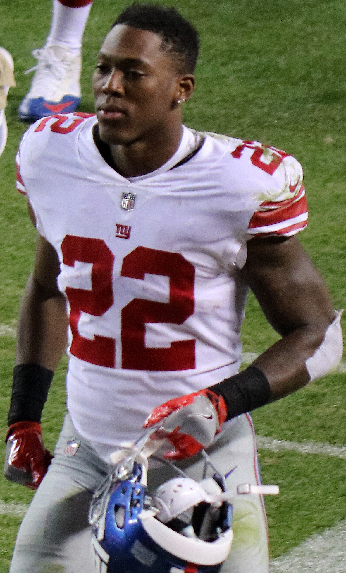 Wayne Gallman, a player on the National Football League.